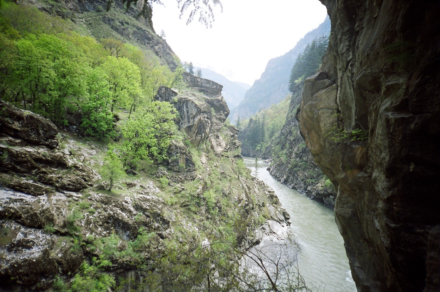 Chnadrabhagha river flowing through Pangi valley in Himachal Pradesh, India